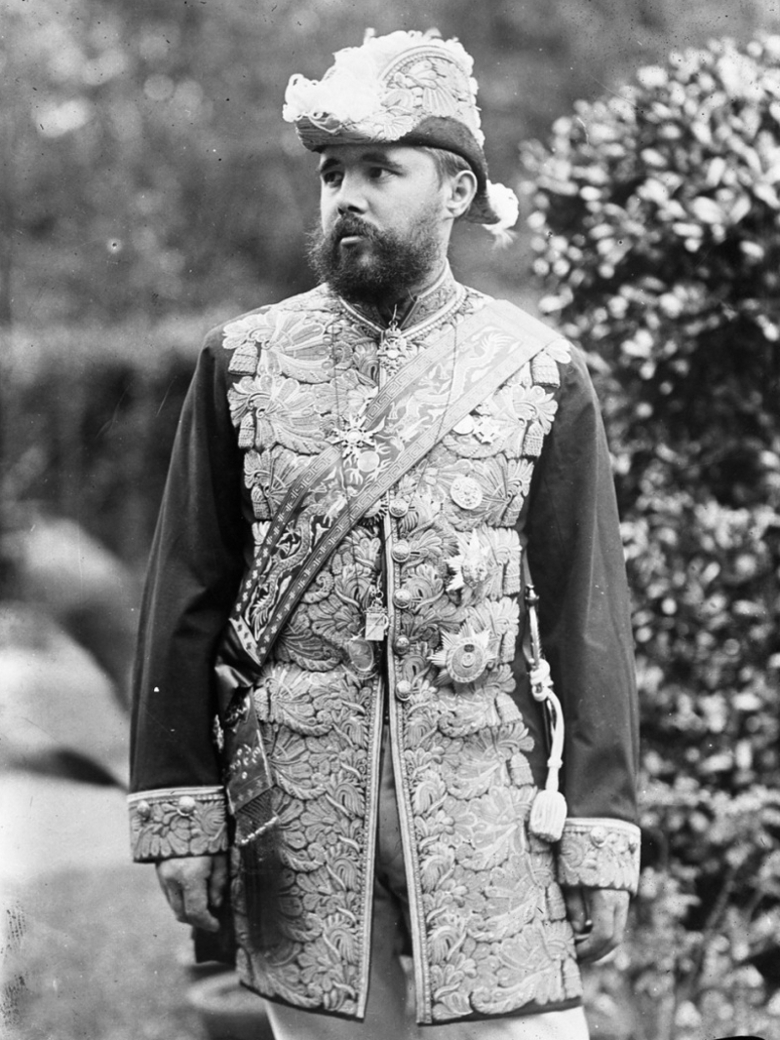 Prince Esper Ukhtomsky, photograph taken in 1893.